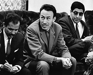 Houari Boumedienne